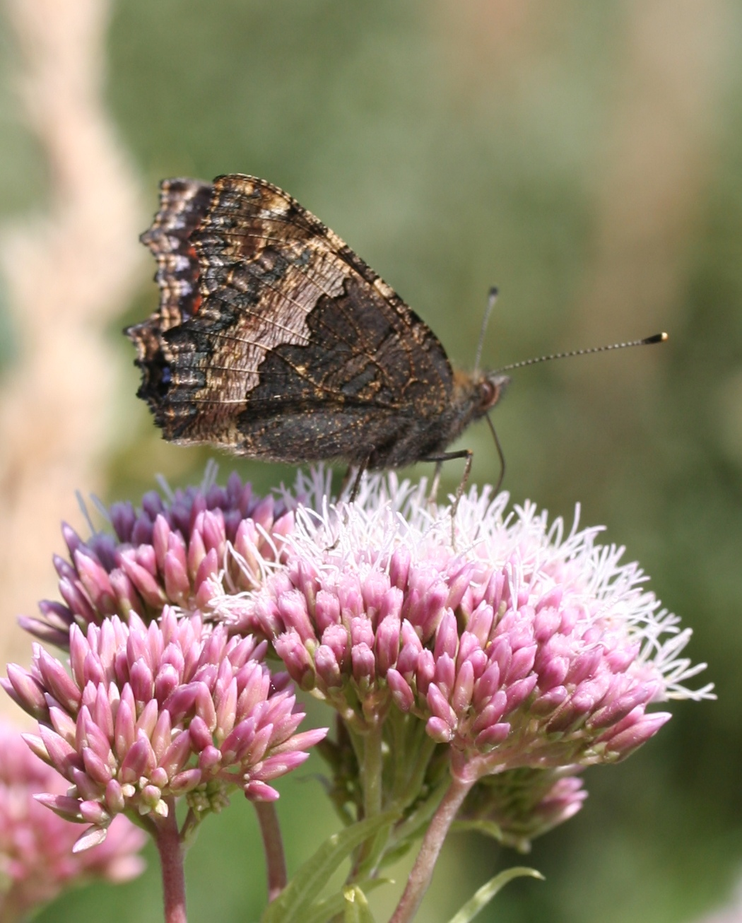 Aglais urticae 13 August 2006 IJmuiden, the Netherlands